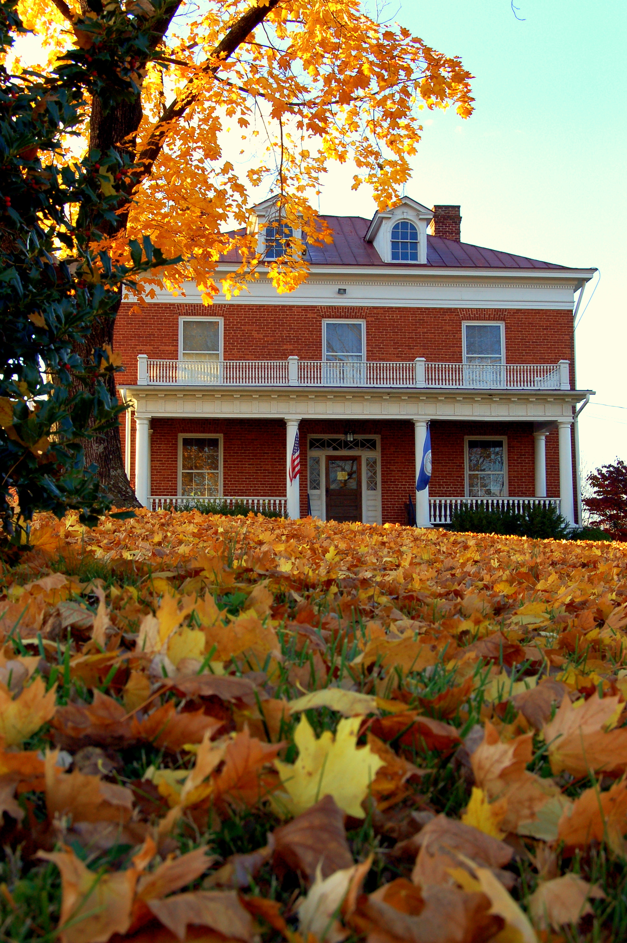 Building and lawn of the Amherst Historical Society in Amherst, Virginia, in the fall.